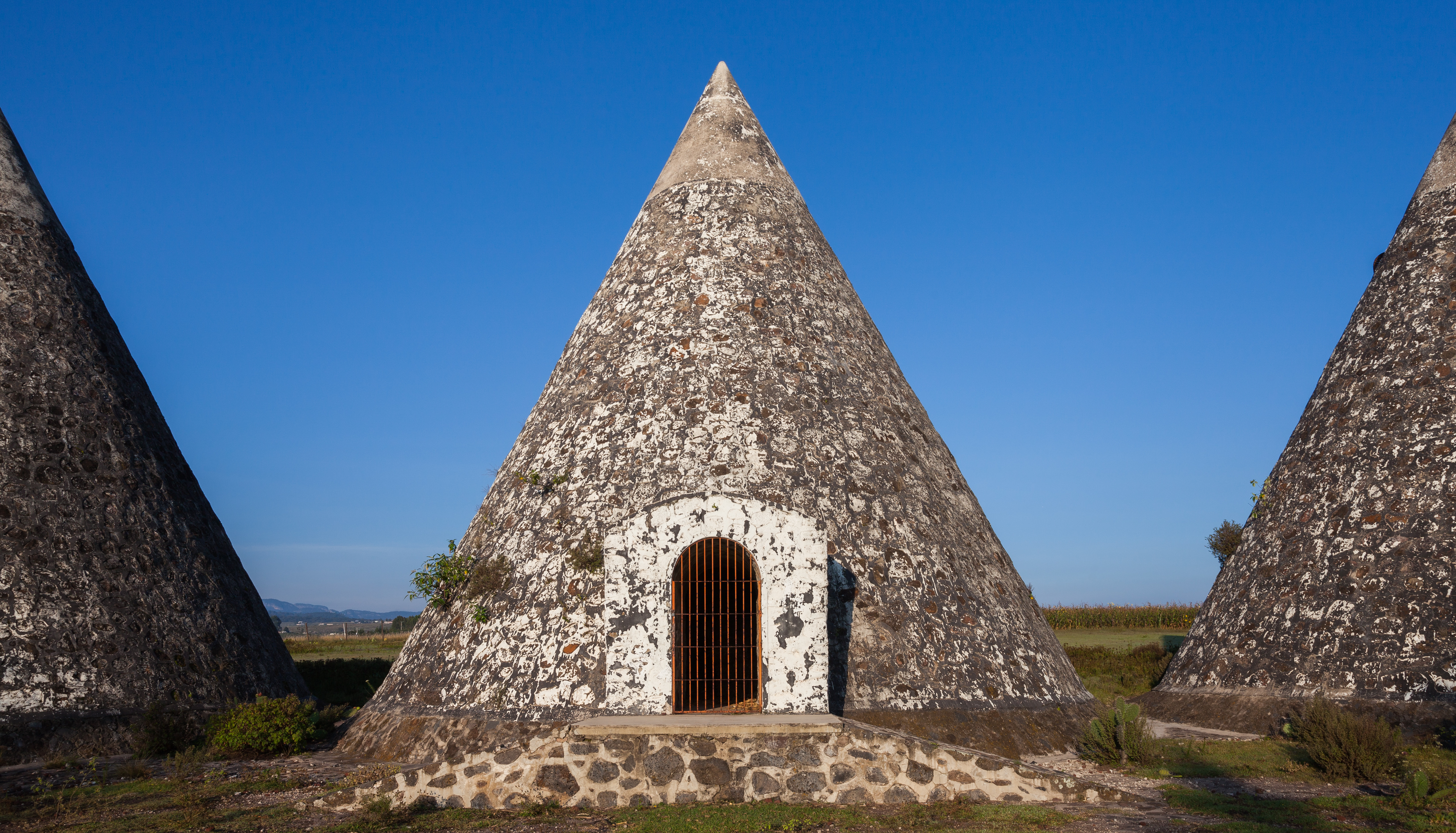 Silos, Acatlán, Hidalgo, Mexico